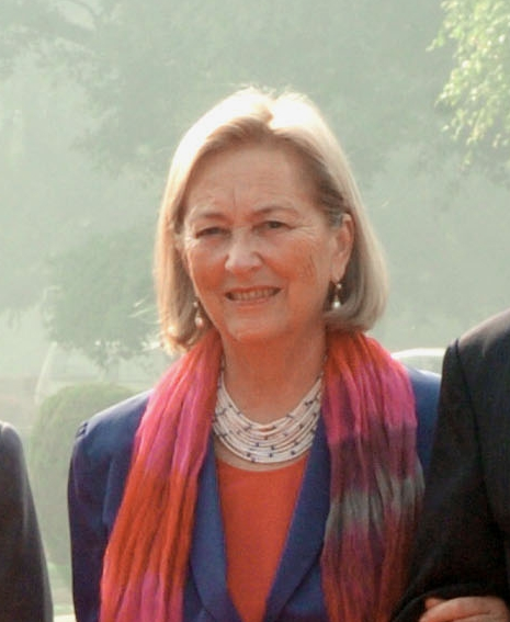 The President, Smt. Pratibha Devisingh Patil and the Prime Minister, Dr. Manmohan Singh at the ceremonial reception of the King Albert II and Queen Paola of Belgium, at Rashtrapati Bhavan, in New Delhi on November 04, 2008.